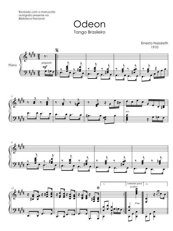 Screenshot of Odeon.Tango by Ernesto Nazareth.